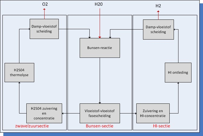 sulfur-iodine cycle schematic